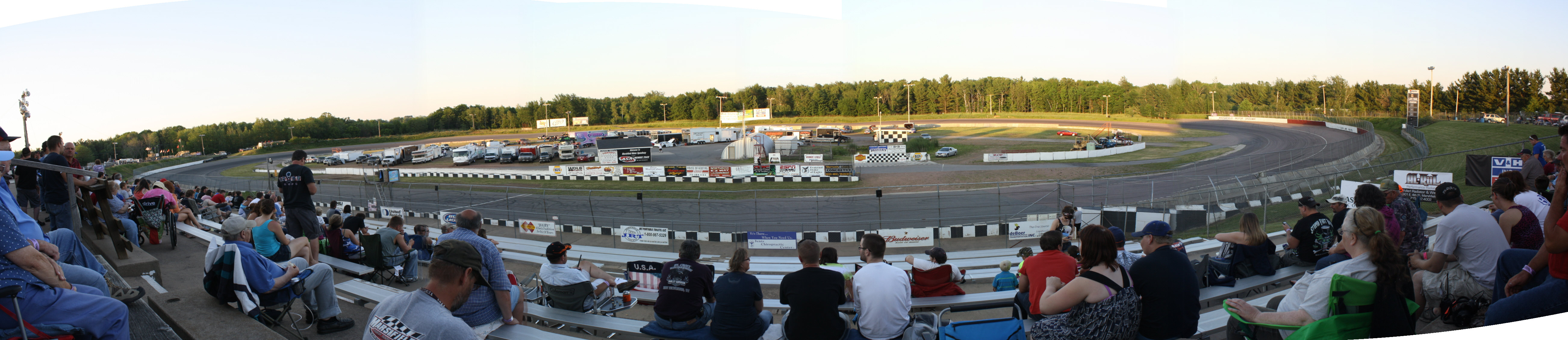 Panorama of Marshfield Motor Speedway.